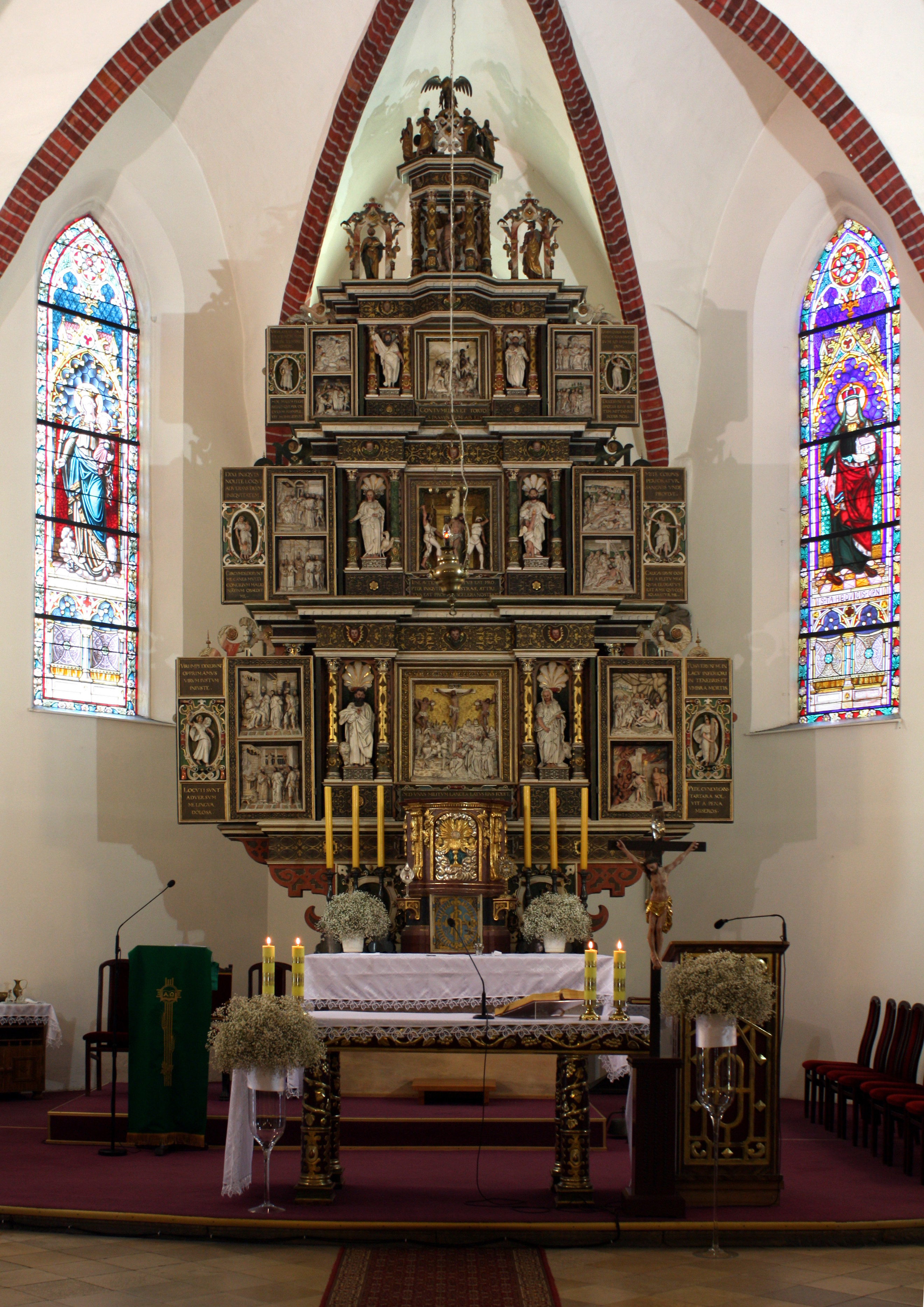 This photo of Lower Silesian Voivodeship was taken during Wikiexpedition 2013 set up by Wikimedia Polska Association. You can see all photographs in category Wikiekspedycja 2013. English | Polski | +/−